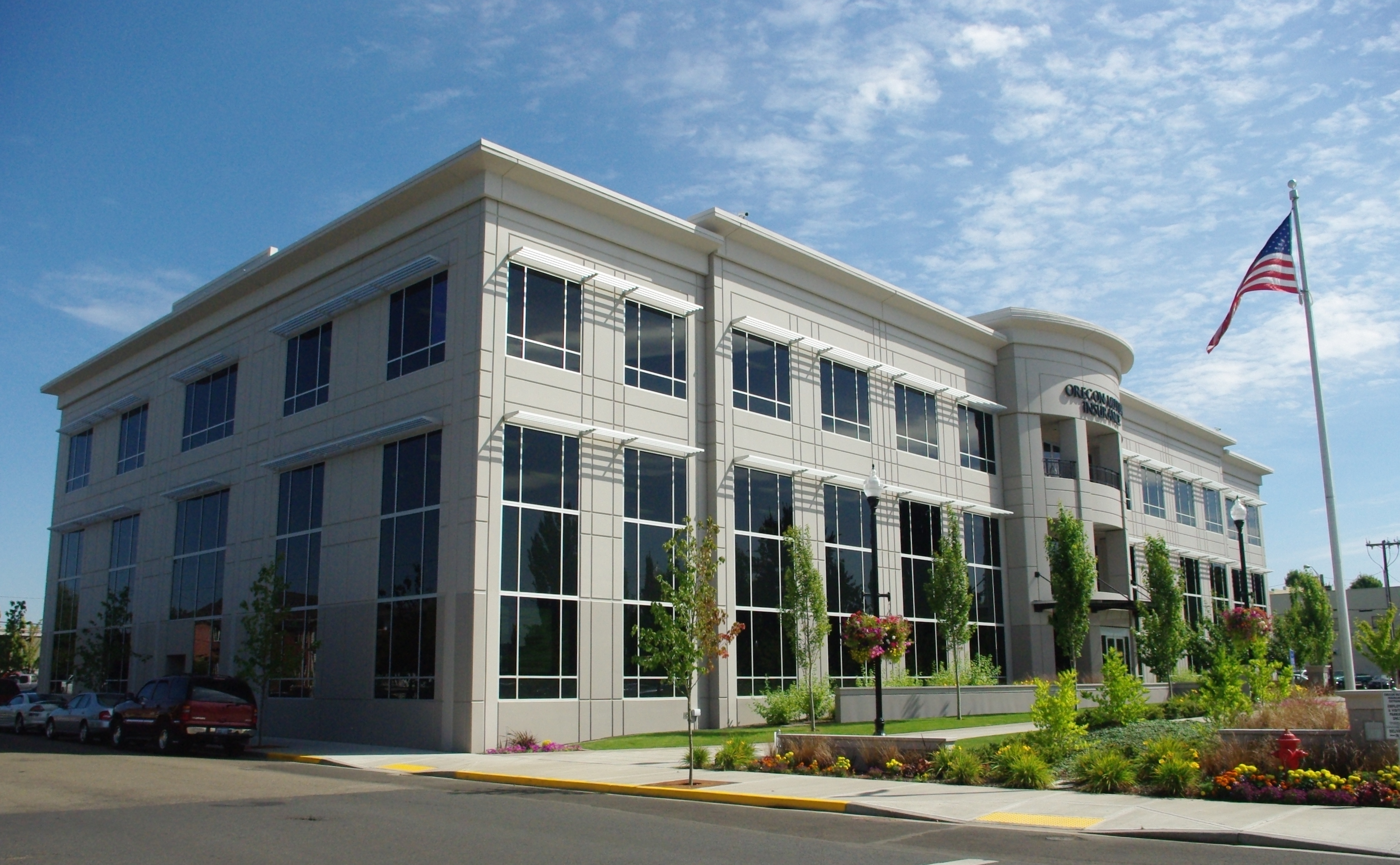 Office building in McMinnville, Oregon, USA.